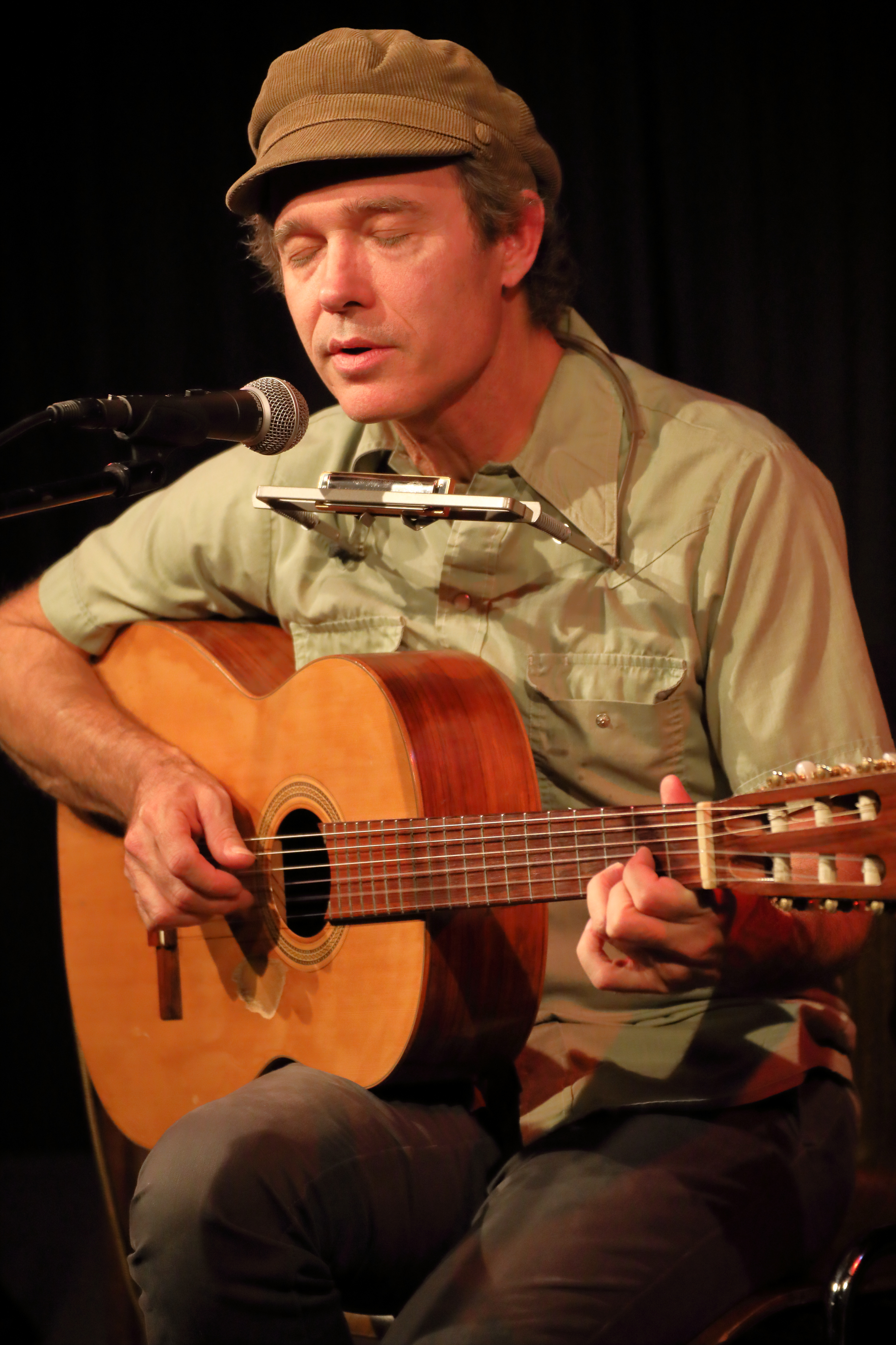 Singer-songwriter Simon Joyner from Omaha, Nebraska in concert at Club W71, Weikersheim.